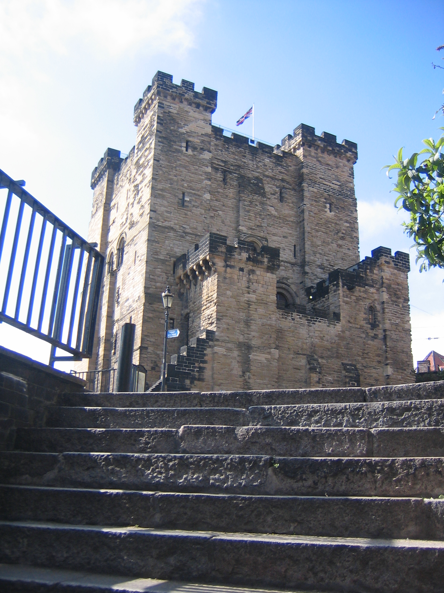 Newcastle upon Tyne's Castle Keep was built by order of King Henry II of England between 1168 and 1178. The keep stands on a site of an earlier Motte-and-bailey castle begun by Robert Curthose, the son of William the Conqueror, in 1080. Prior to this, it was a cemetery belonging to the Anglo-Saxon settlement of Monkchester, and before that the site of Pons Aelius, a Roman fort. Curthose's castle was the "New Castle upon Tyne" from which the city's name derives. The City's Blackgate stands adjacent to the Keep. It was named after Patrick Black, a tenant there in the 17th century.